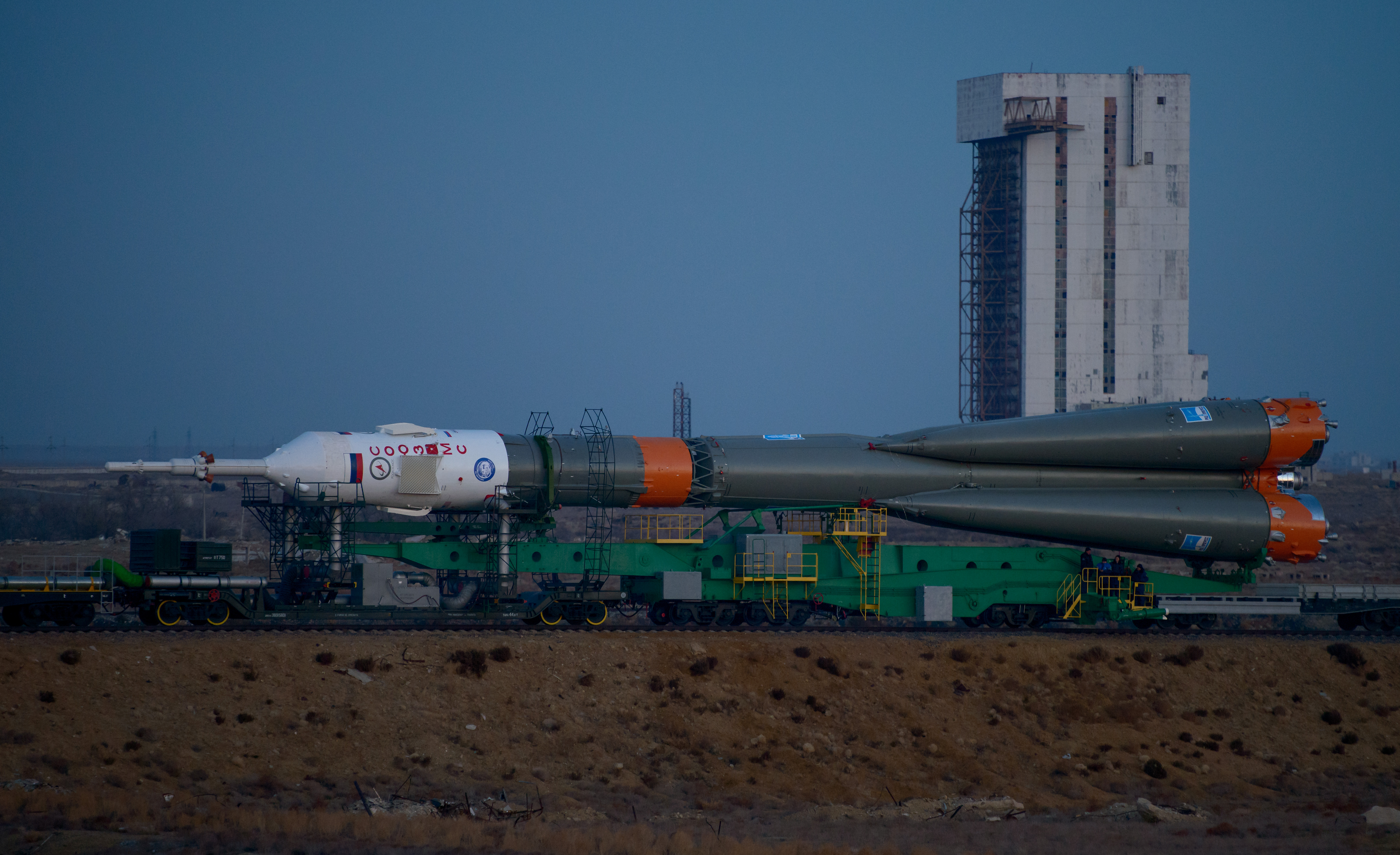 The Soyuz rocket is rolled out by train to the launch pad at the Baikonur Cosmodrome, Kazakhstan, Monday, Nov. 14, 2016. NASA astronaut Peggy Whitson, Russian cosmonaut Oleg Novitskiy of Roscosmos, and ESA astronaut Thomas Pesquet will launch from the Baikonur Cosmodrome in Kazakhstan the morning of November 18 (Kazakh time.) All three will spend approximately six months on the orbital complex. Photo Credit: (NASA/Bill Ingalls)